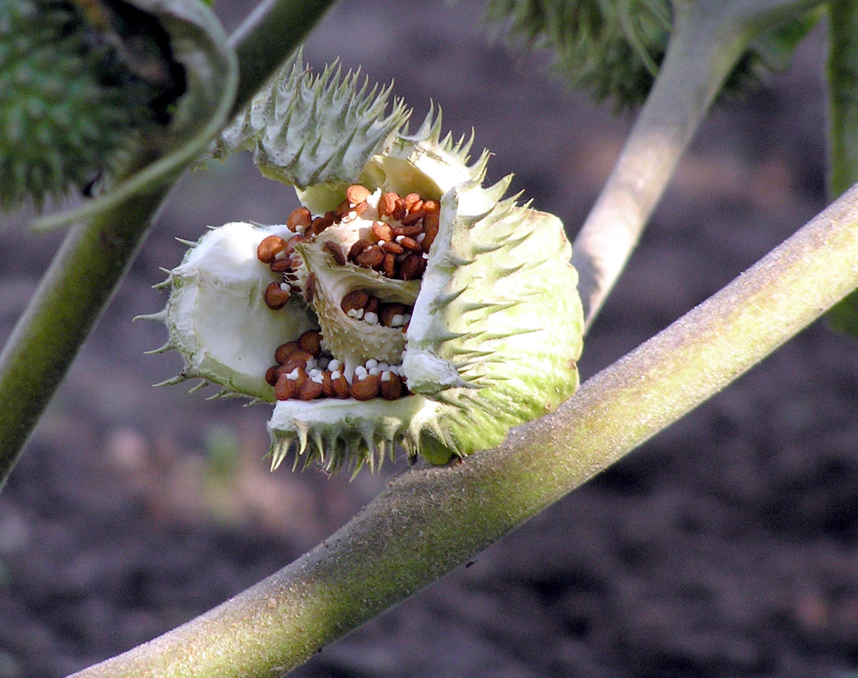 Fruit of Datura inoxia. Not Datura metel as indicated in Estonian caption as fruit of D. metel is knobbed while that of D. inoxia is spiny.